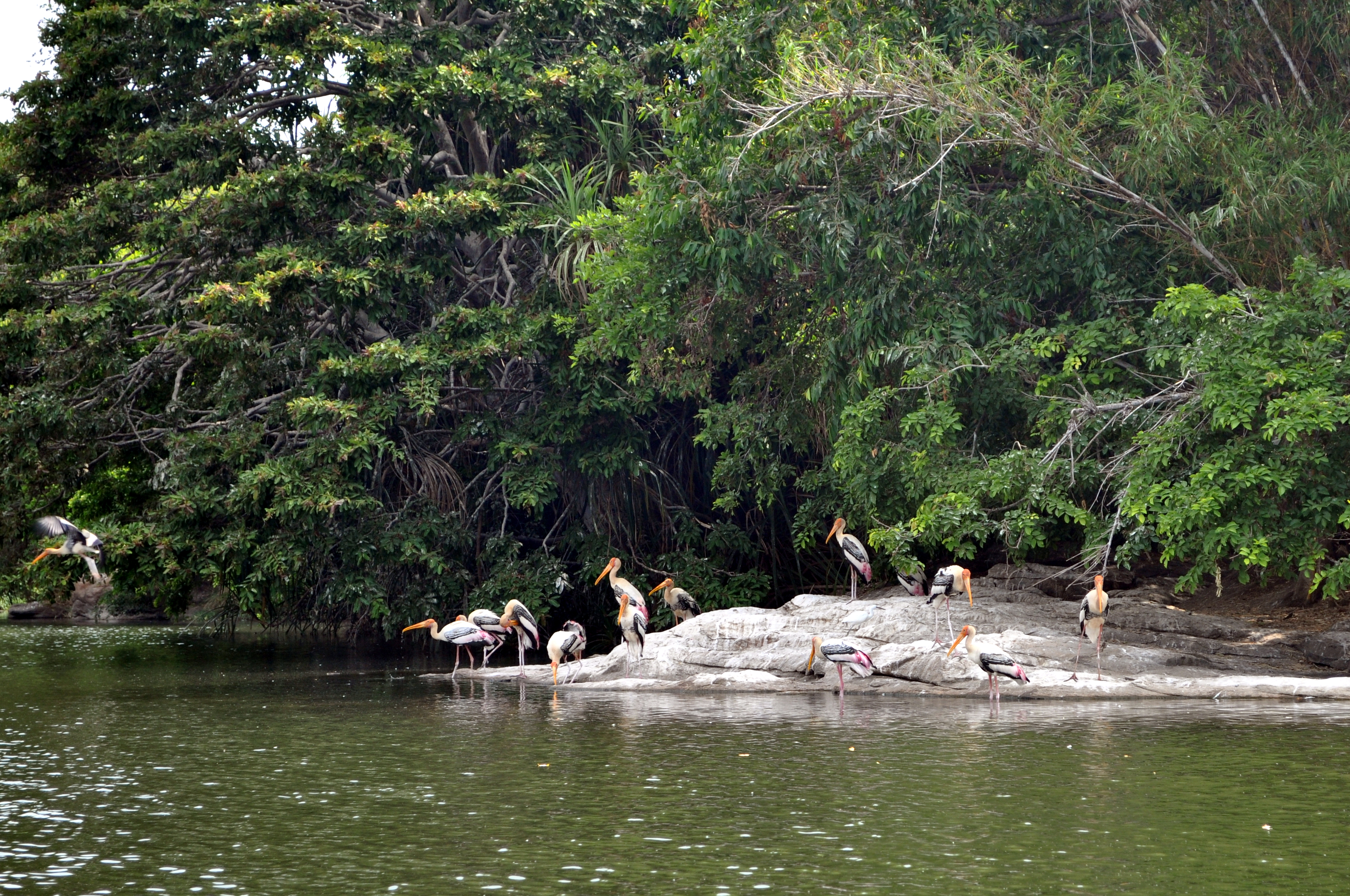 Ranganathittu Bird Sanctuary, Karnataka, India